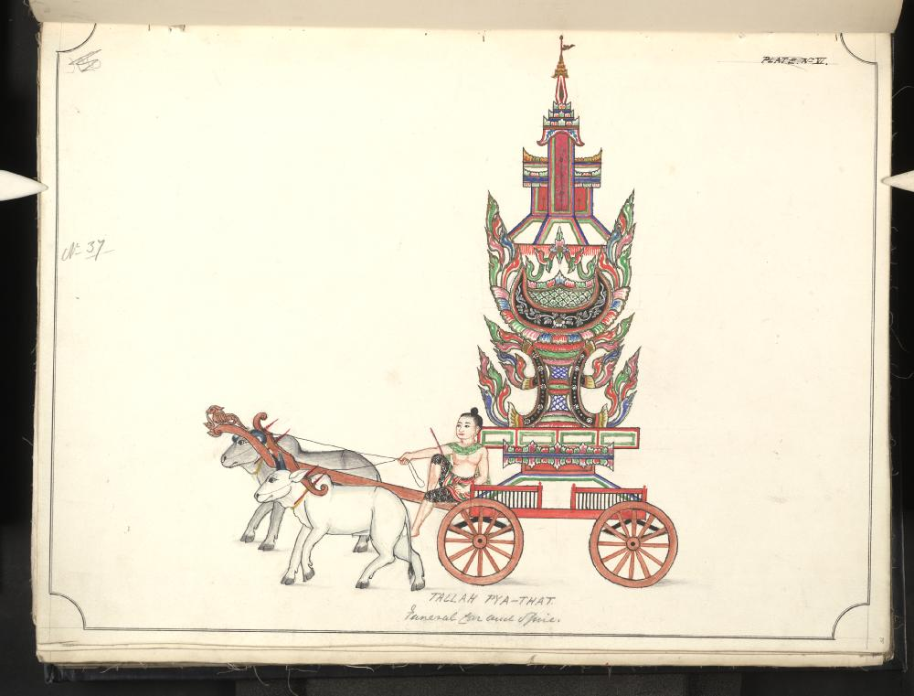 Watercolour painting by an unknown Burmese artist depicting 19th century Burmese life. Caption: "Tallah Pya-That. Funeral car and spire." This vehicle would be part of the funeral procession from the death house to the site of the funeral pyre. The spire would burn with the body, or would be left to decay. More description at [1]